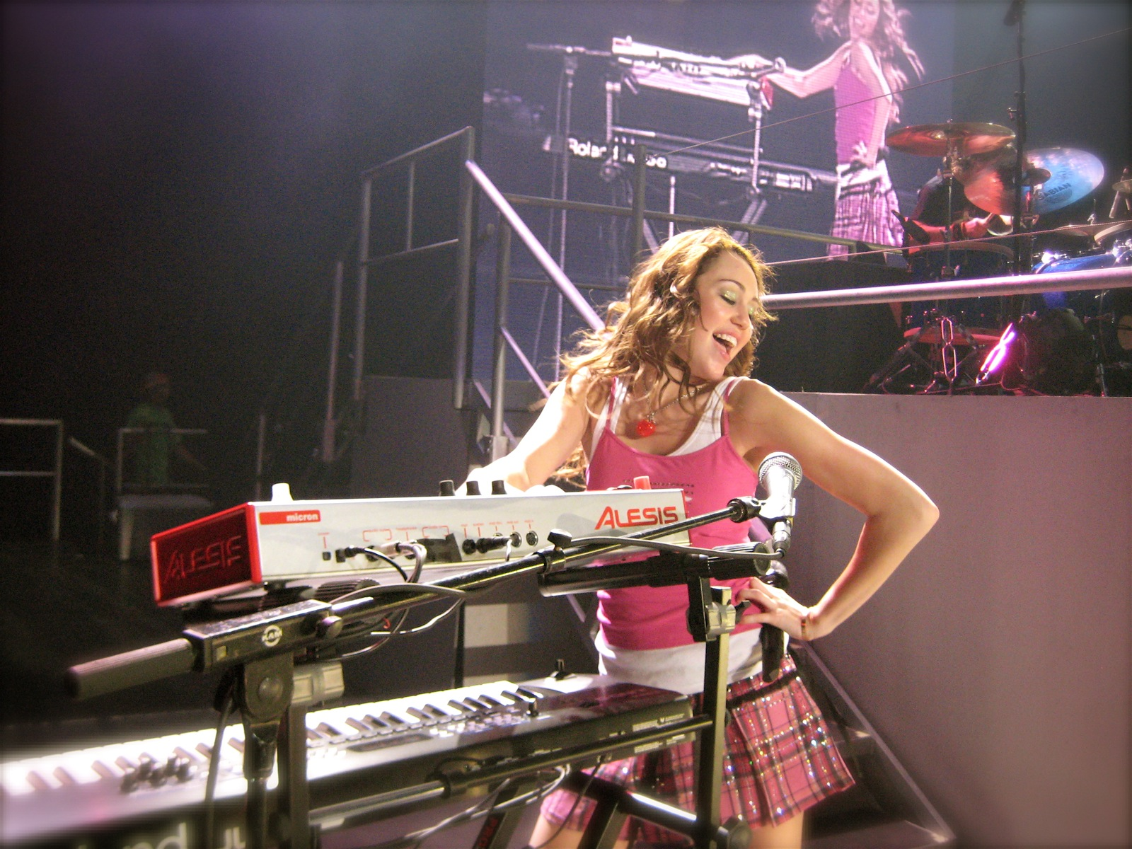 Miley Cyrus plays in concert